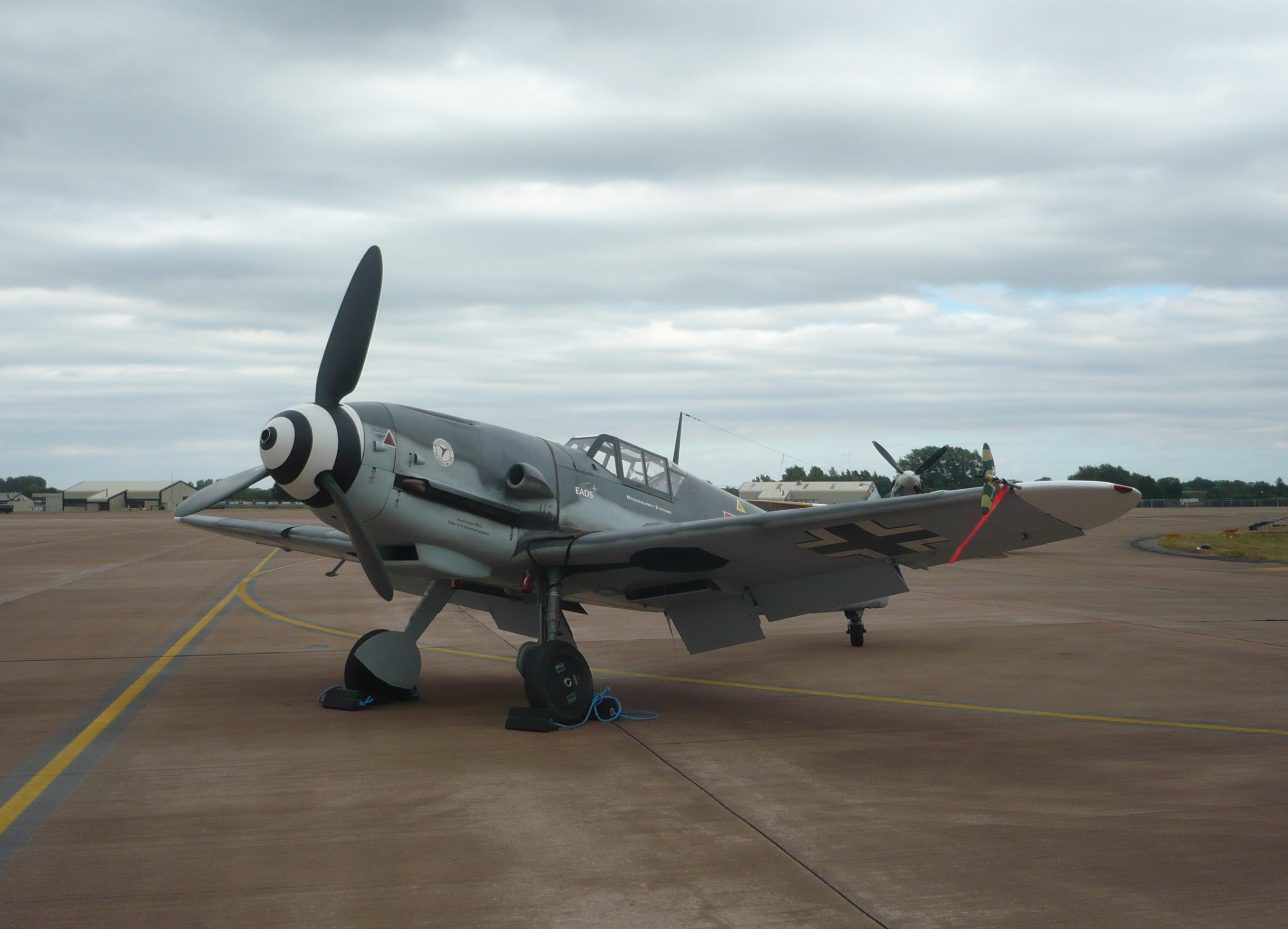 Former Luftwaffe Messerschmitt Bf 109G-4, now D-FWME, at RIAT 2010.